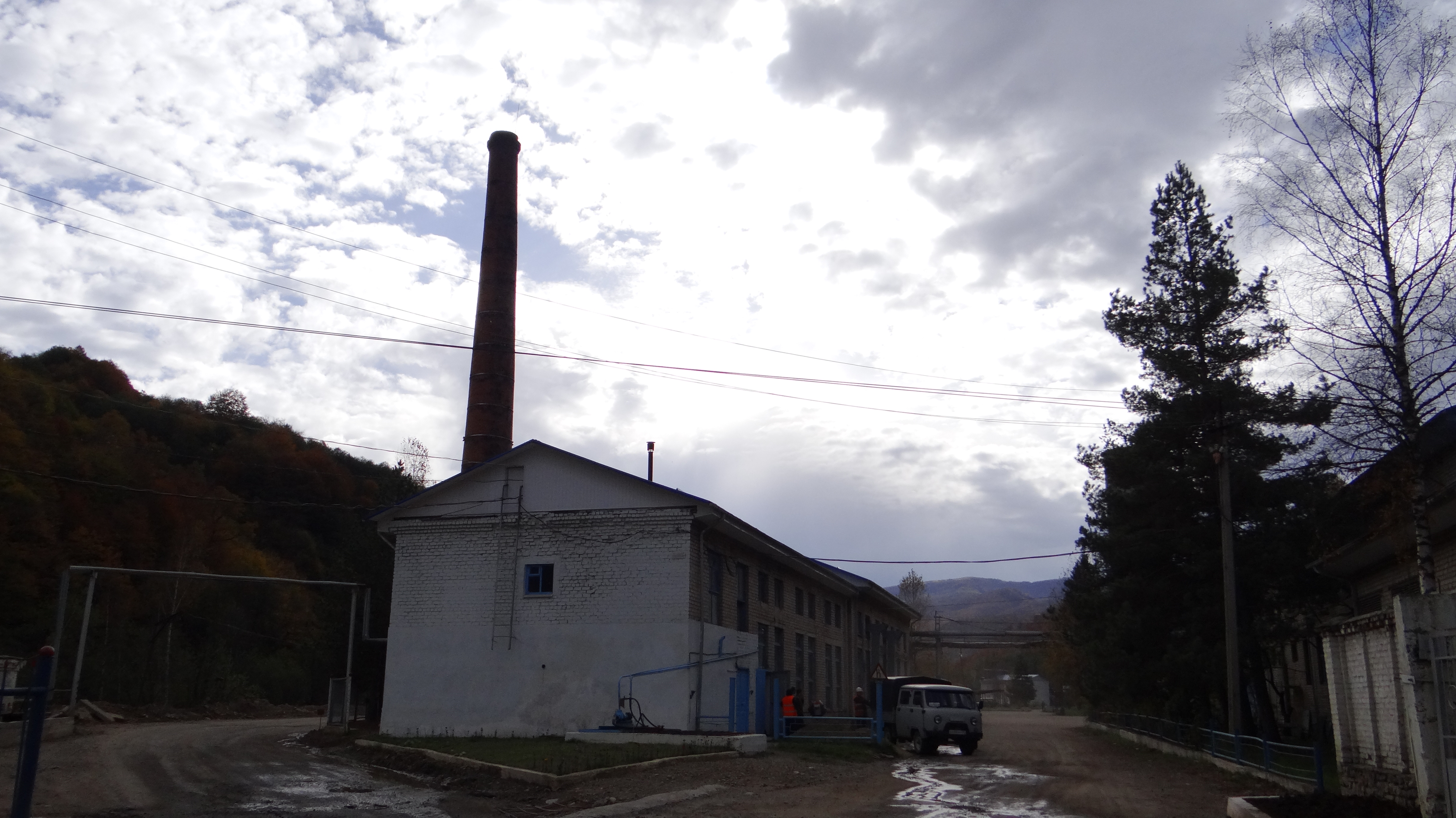 Urupsky District, Karachay-Cherkessia, Russia